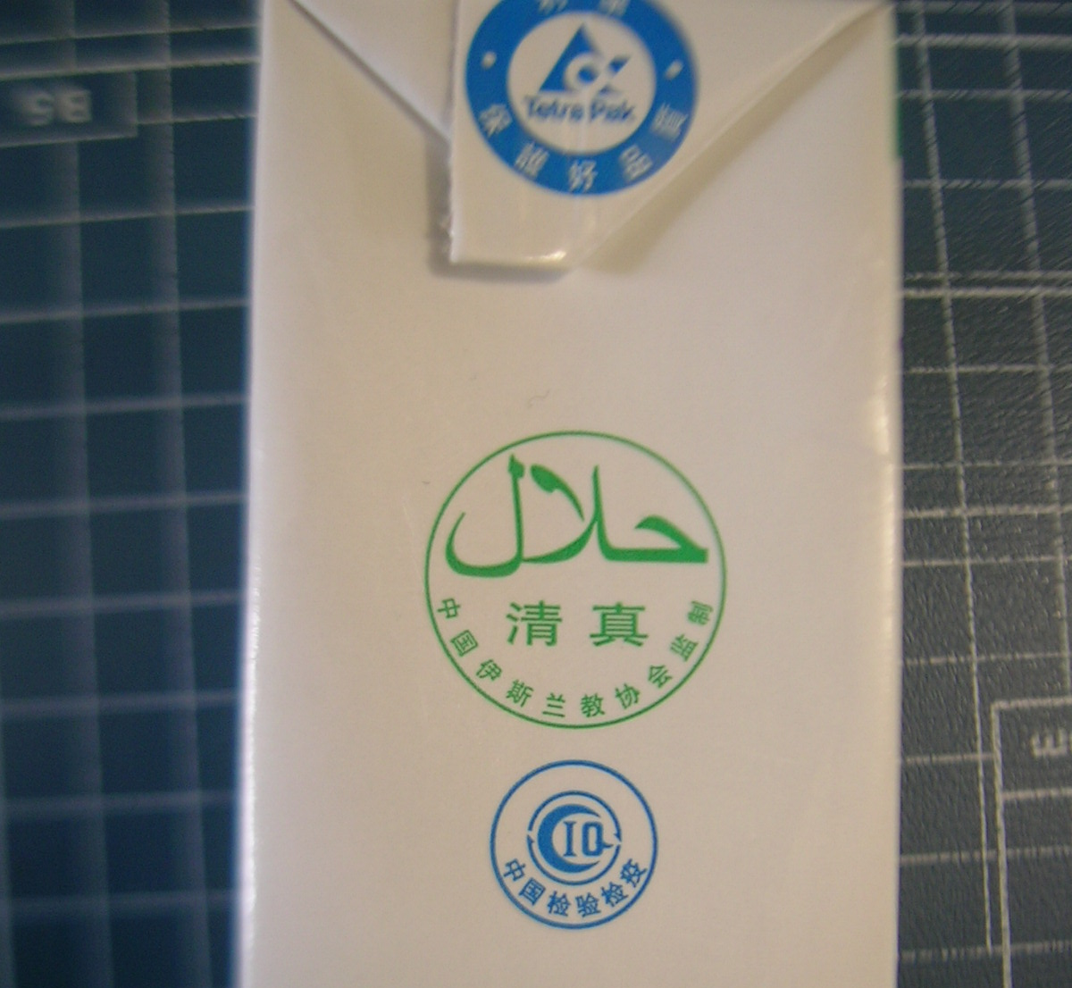 Halal logo on softpack milk in Hong Kong (from Mainland China)